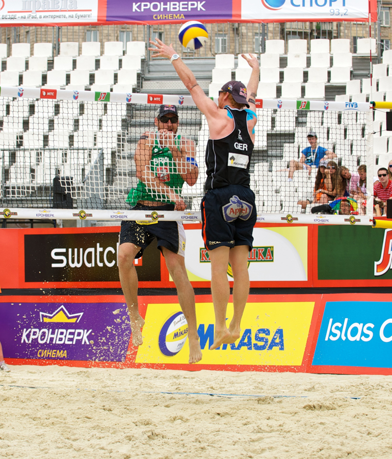 Grand Slam Moscow 2012